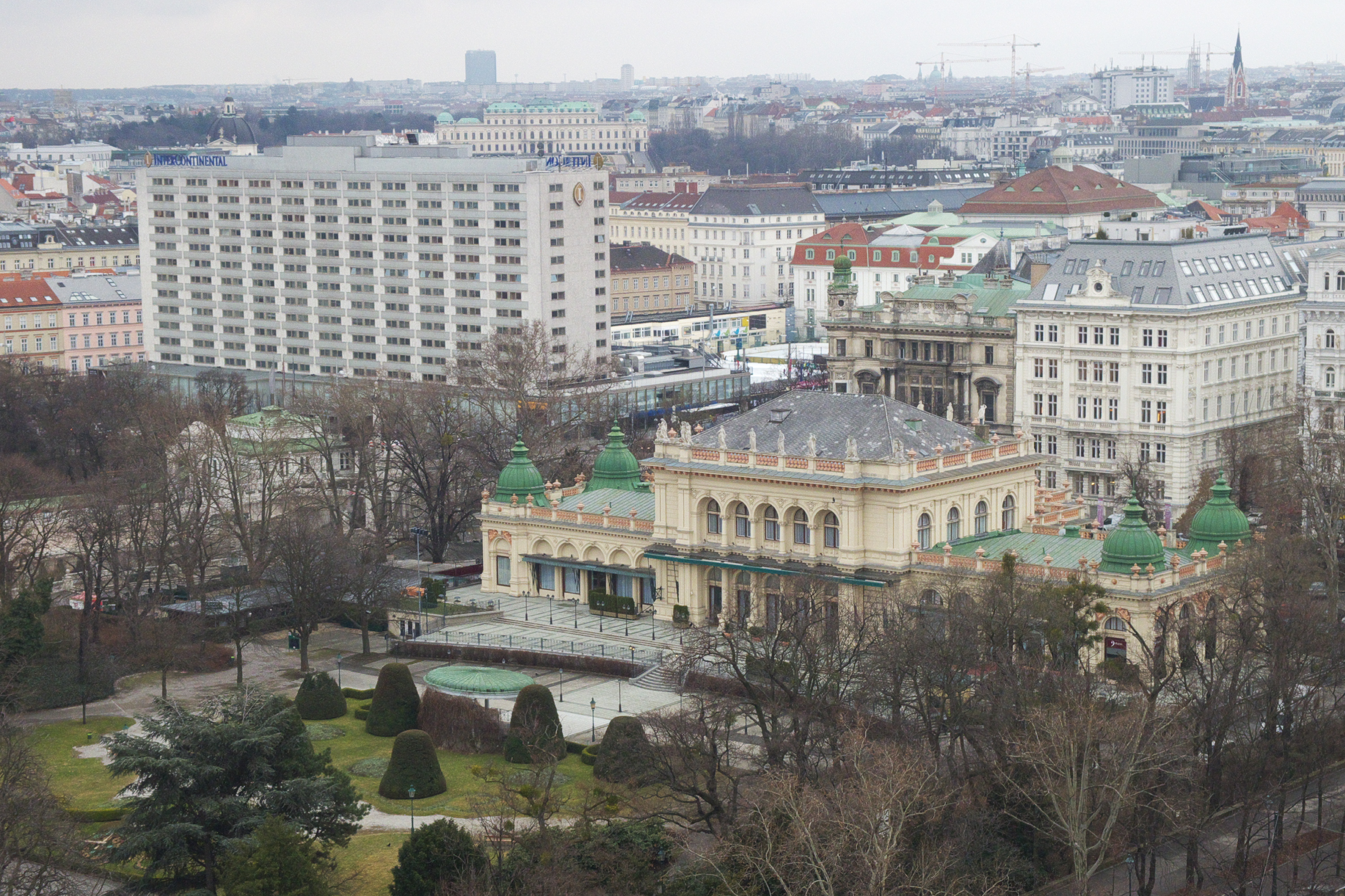 View over the Kursalon from the Gartenbau building.